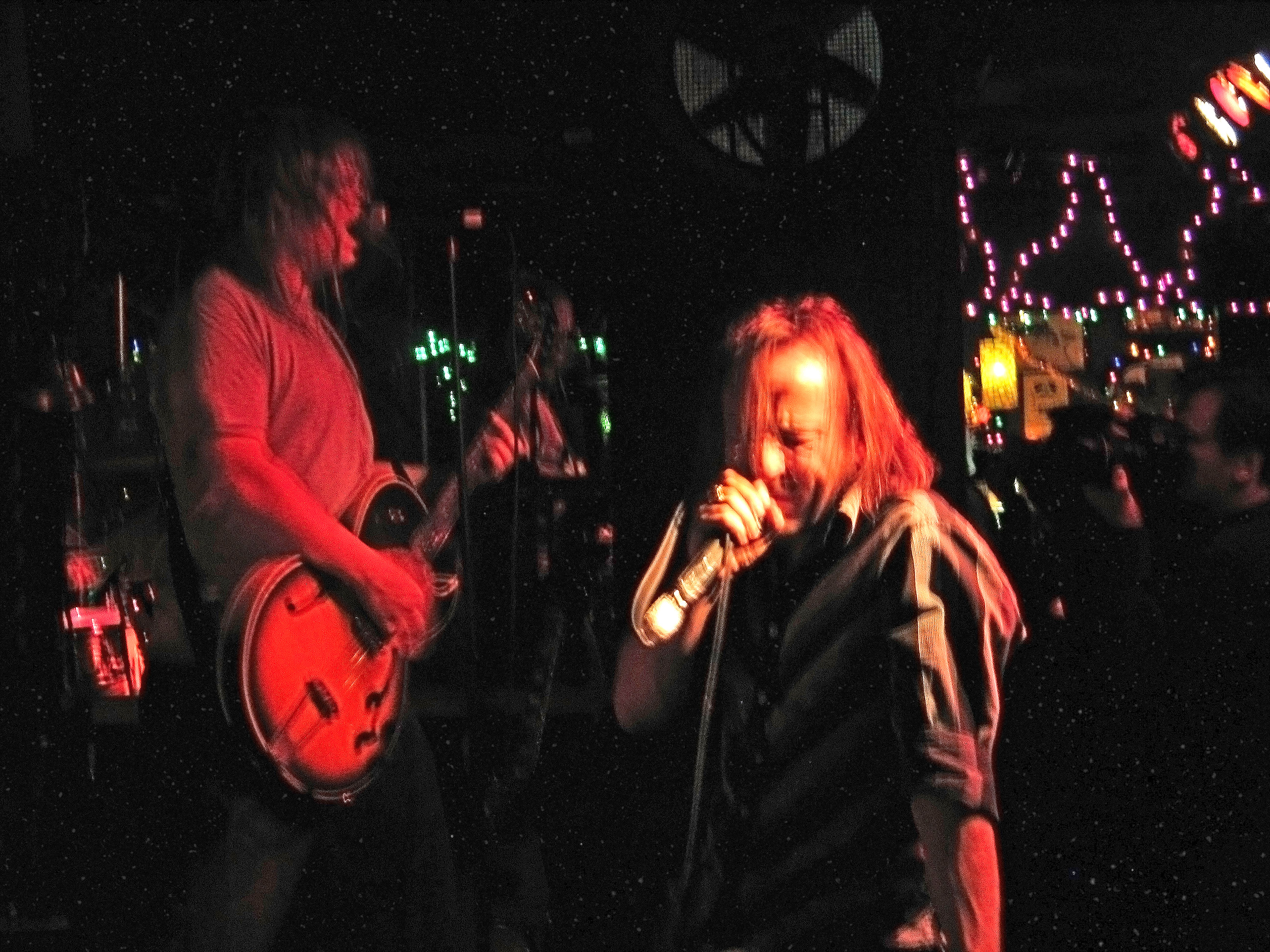 Qui w/ David Yow @ The Casbah